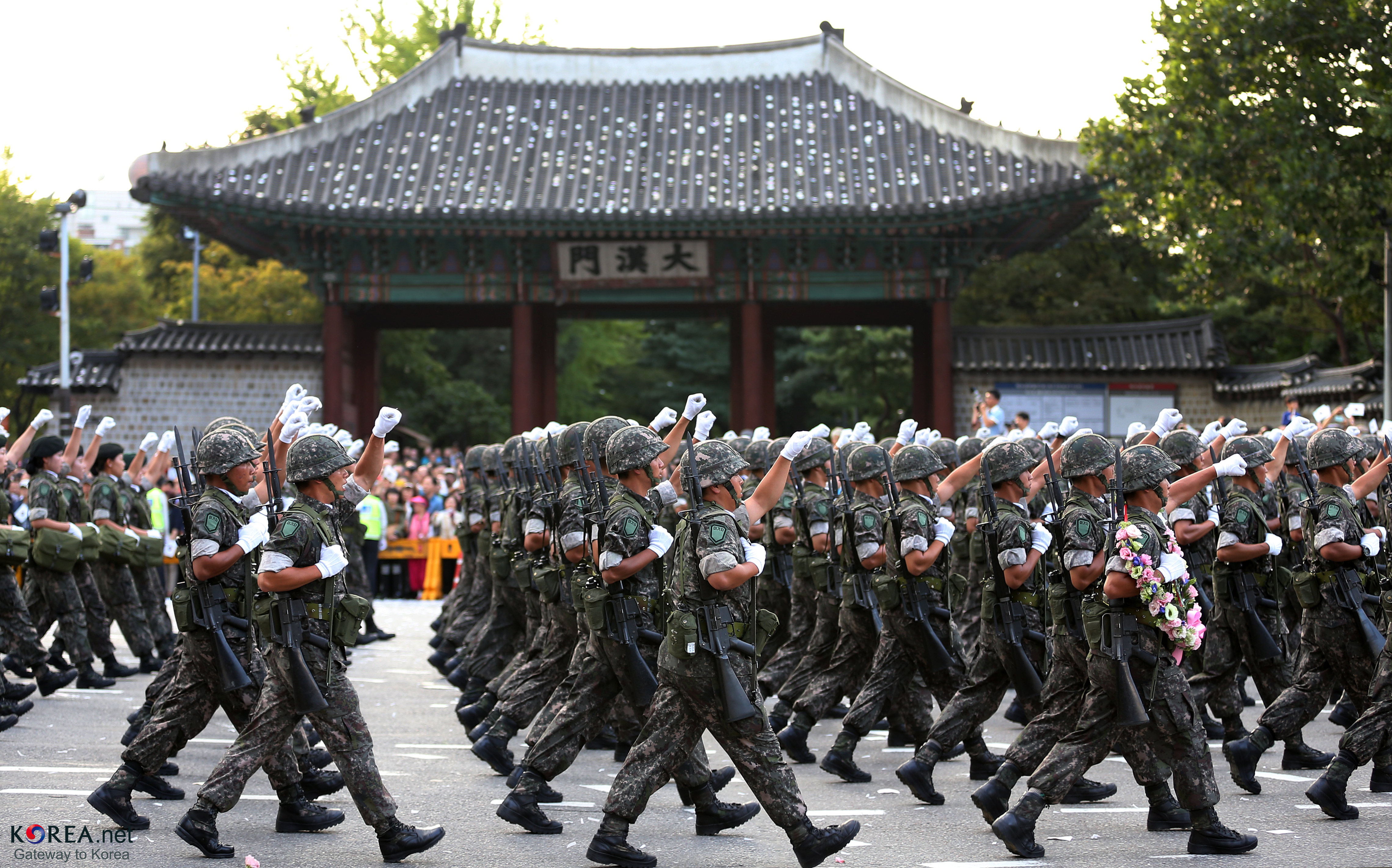 The 65th Anniversary of the Armed Forces Day. Armed Forces’ parade on the main street in Seoul